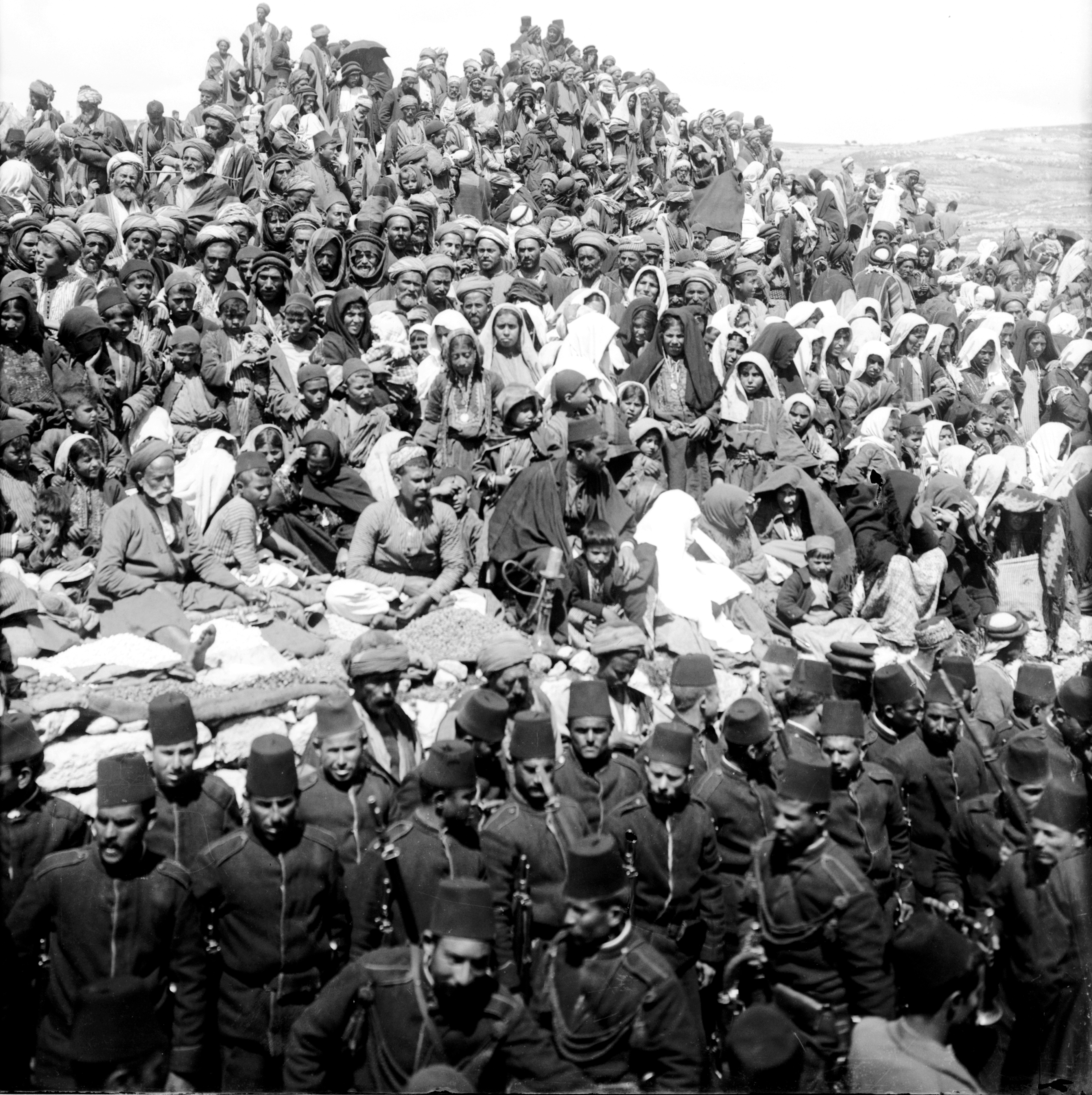 Costumes, characters, etc. Peasants waiting for Neby Mousa [i.e., Nebi Musa] procession